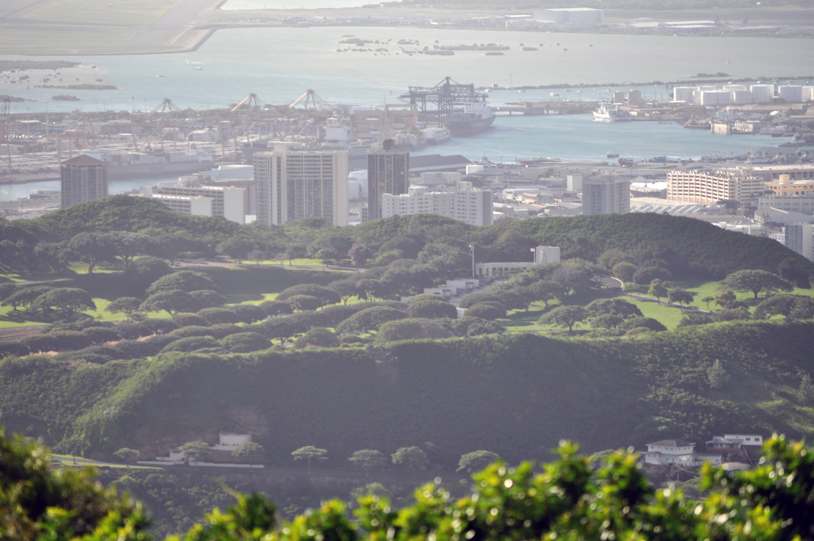 A distant overview of Punchbowl National Cemetery. The runways of Honolulu International Airport are visible in the background as well. My vantage point is the Tantalus, located in the hills just above Honolulu. The views are second to none, but the winds are quite fierce too.